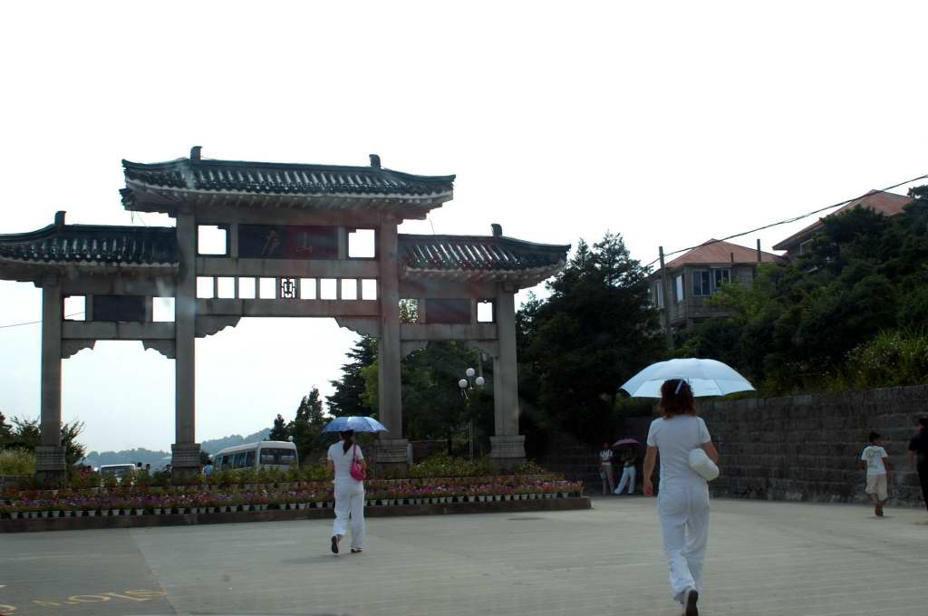 Lu Mountain north entrance